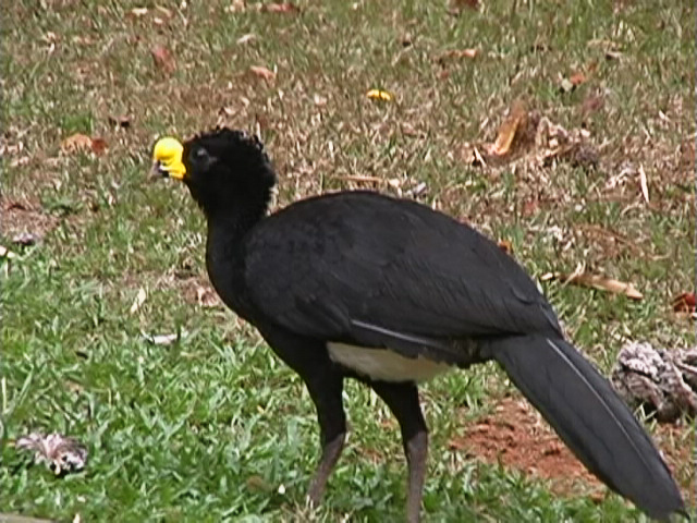 Great Curassow (Crax rubra) at Summit Park, Panama. Photographed on 5 April 2002